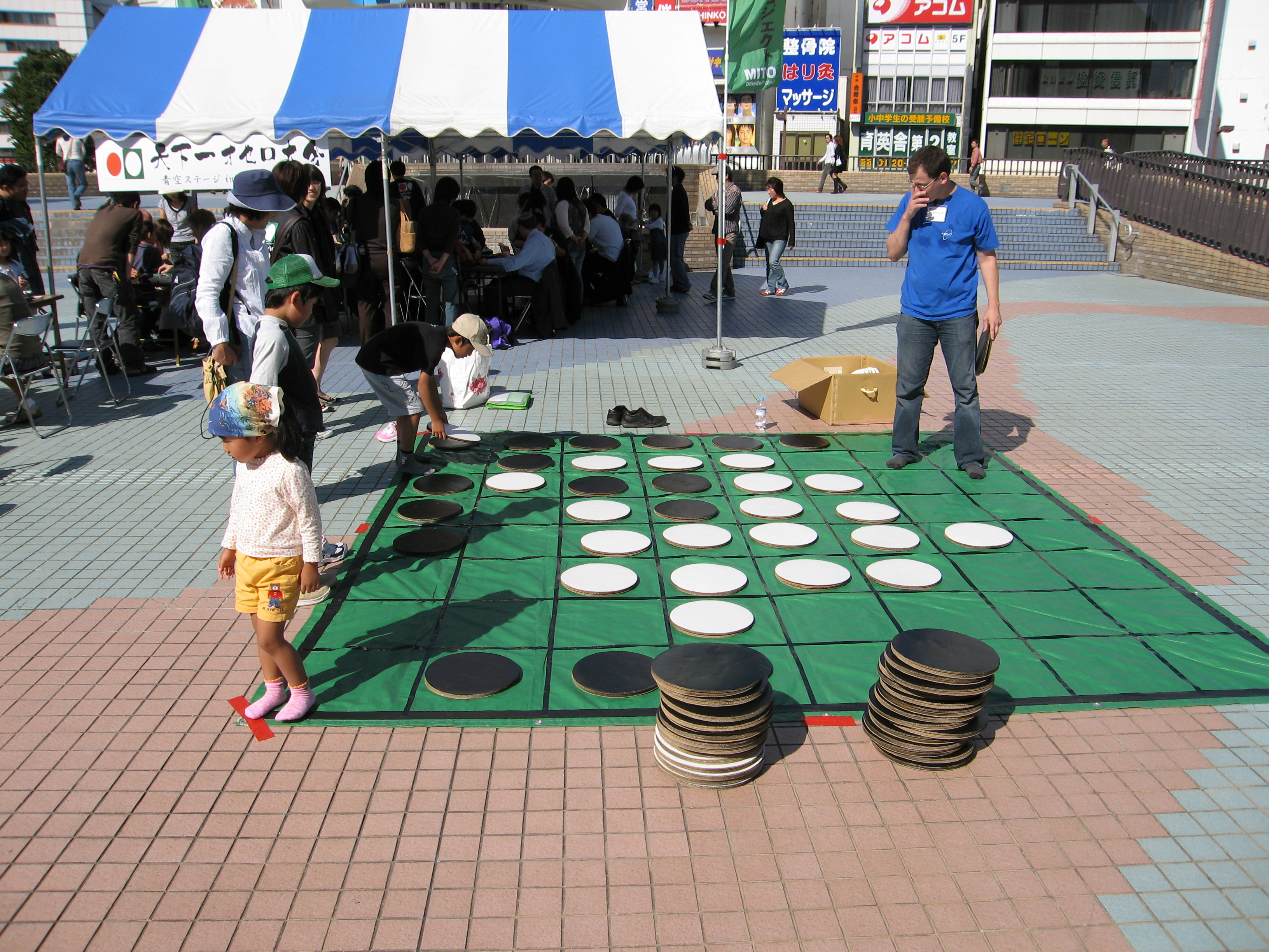 Giant othello game in the city of Mito. Promition event for the game Othello (Reversi) the day after the word championship of the game.